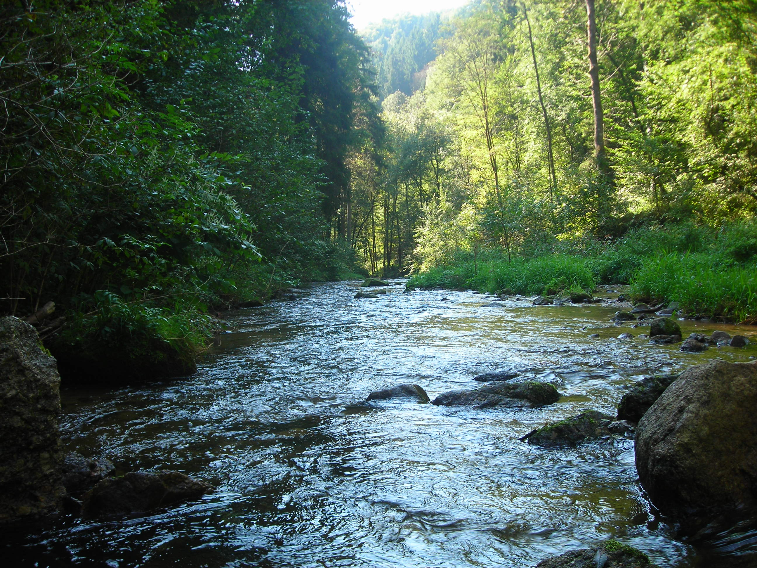 Pesenbach